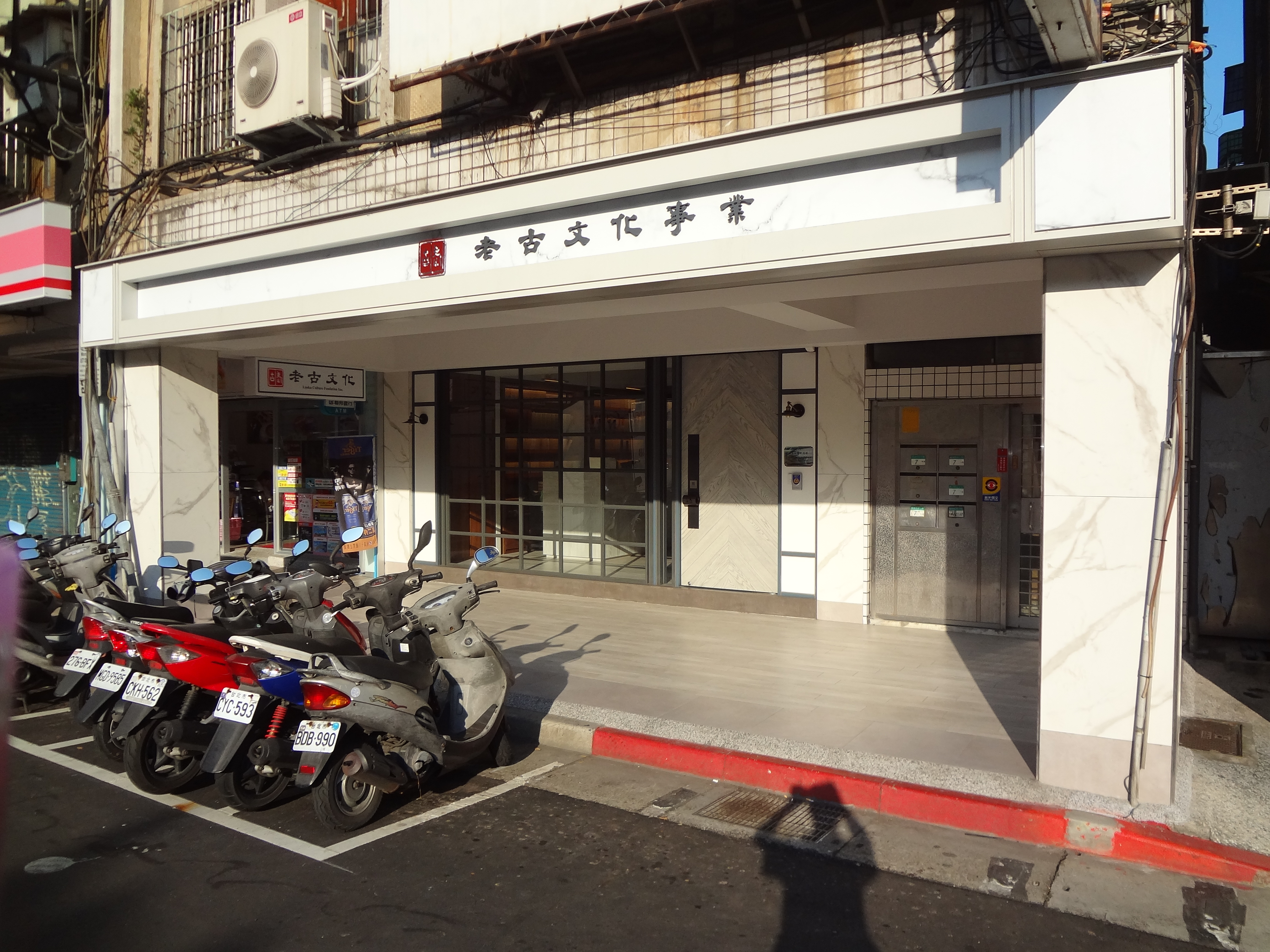 The headquarters of Laoku Culture Foundation Inc. since December 12, 2016.